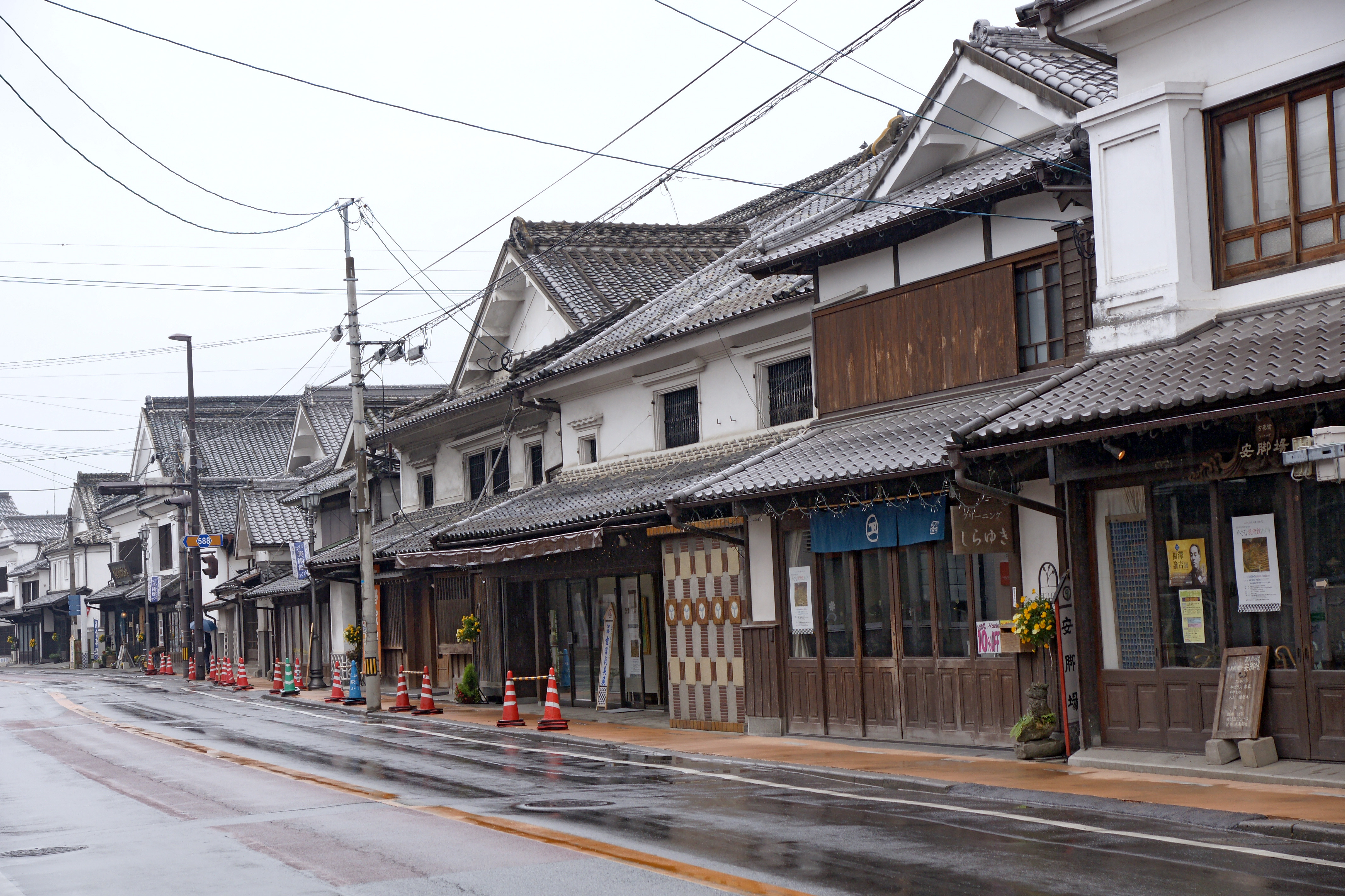 Chikugo-Yoshii, Ukiha, Fukuoka prefecture, Japan